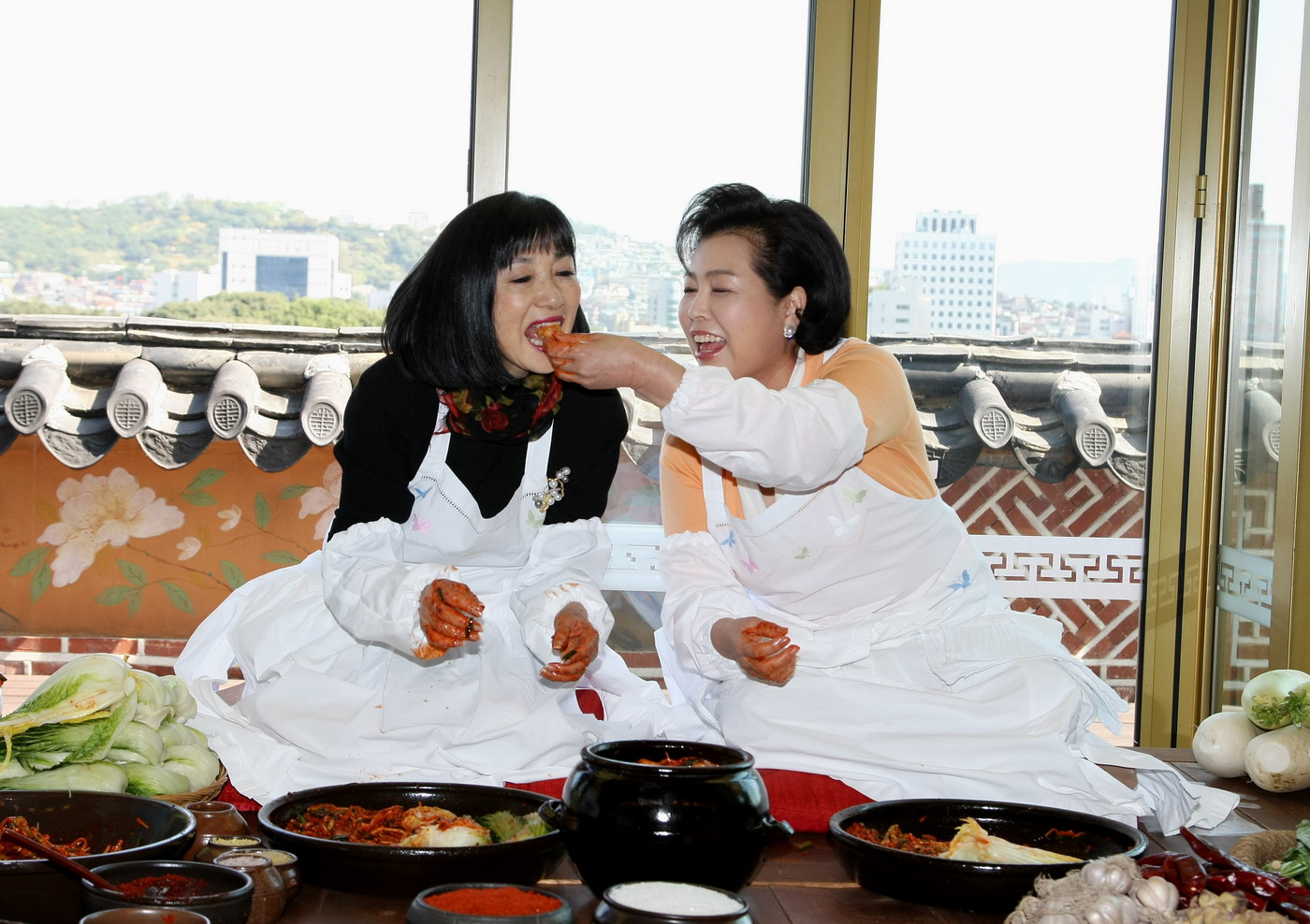 First lady Kim Yoon-ok, right, serves kimchi to Miyuki Hatoyama, wife of Japan’s Prime Minister Yukio Hatoyama, while making kimchi together at the Institute of Traditional Korean Food in Seoul.